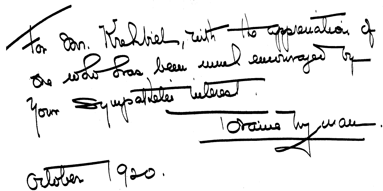 Inscription entered by the folk song fieldworker Loraine Wyman in a copy of her book "Twenty Kentucky Mountain Songs", given as a gift to the music critic Henry Krehbiel in October 1920